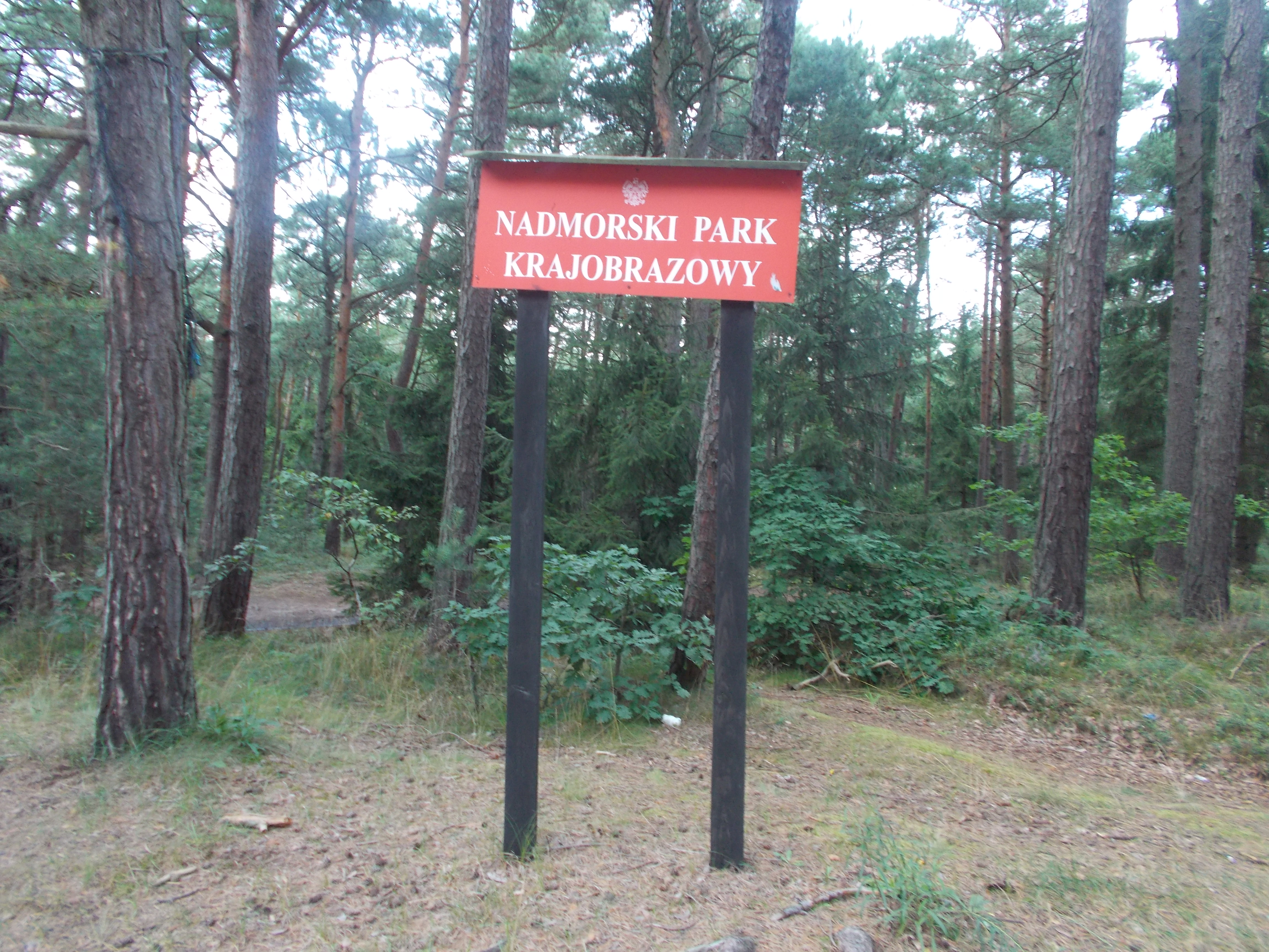 Coastal Landscape Park sign (Ostrowo, Poland)